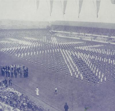 Goodison Park Royal Visit 1913